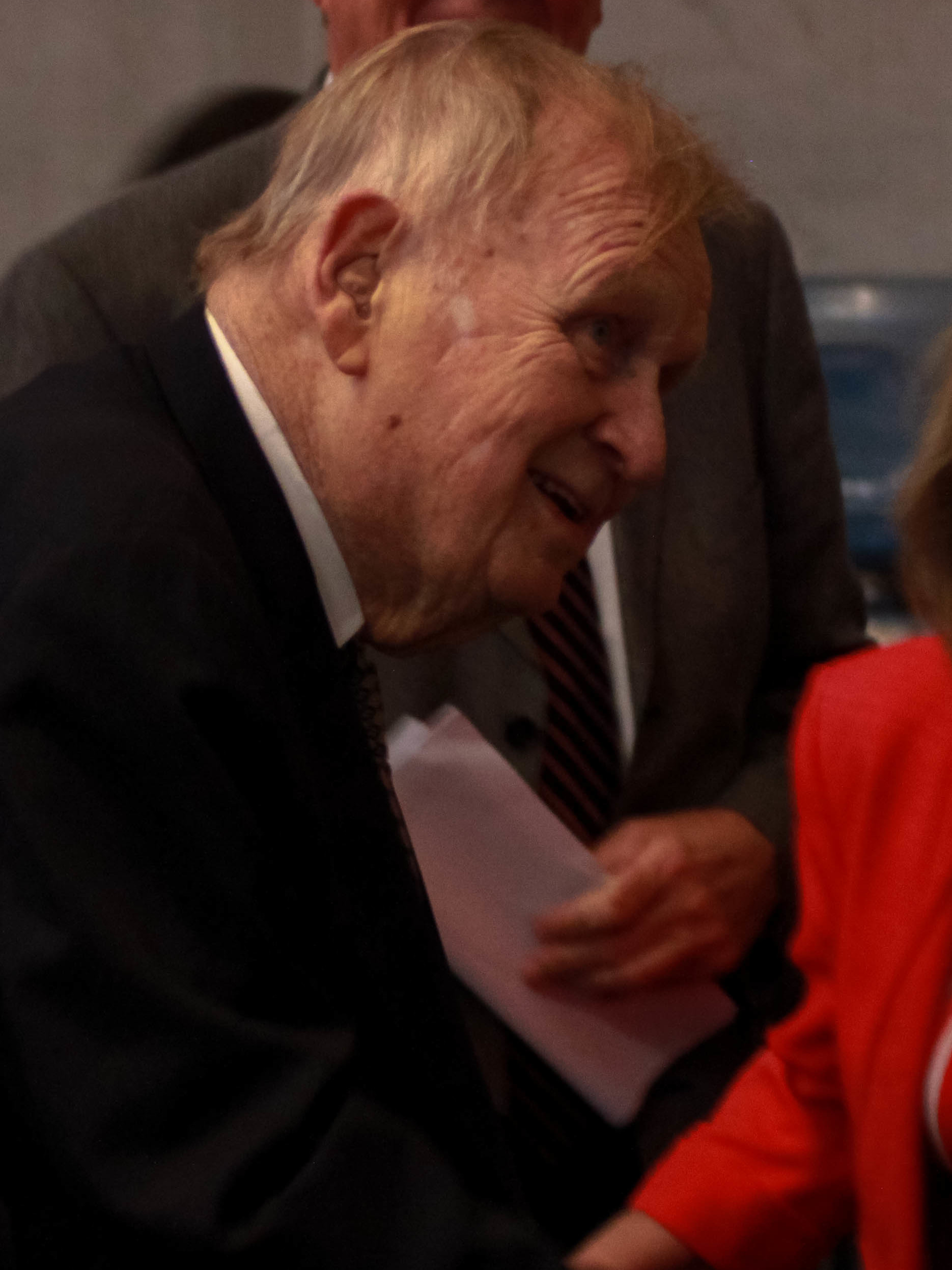 Harold Love & Douglas Henry